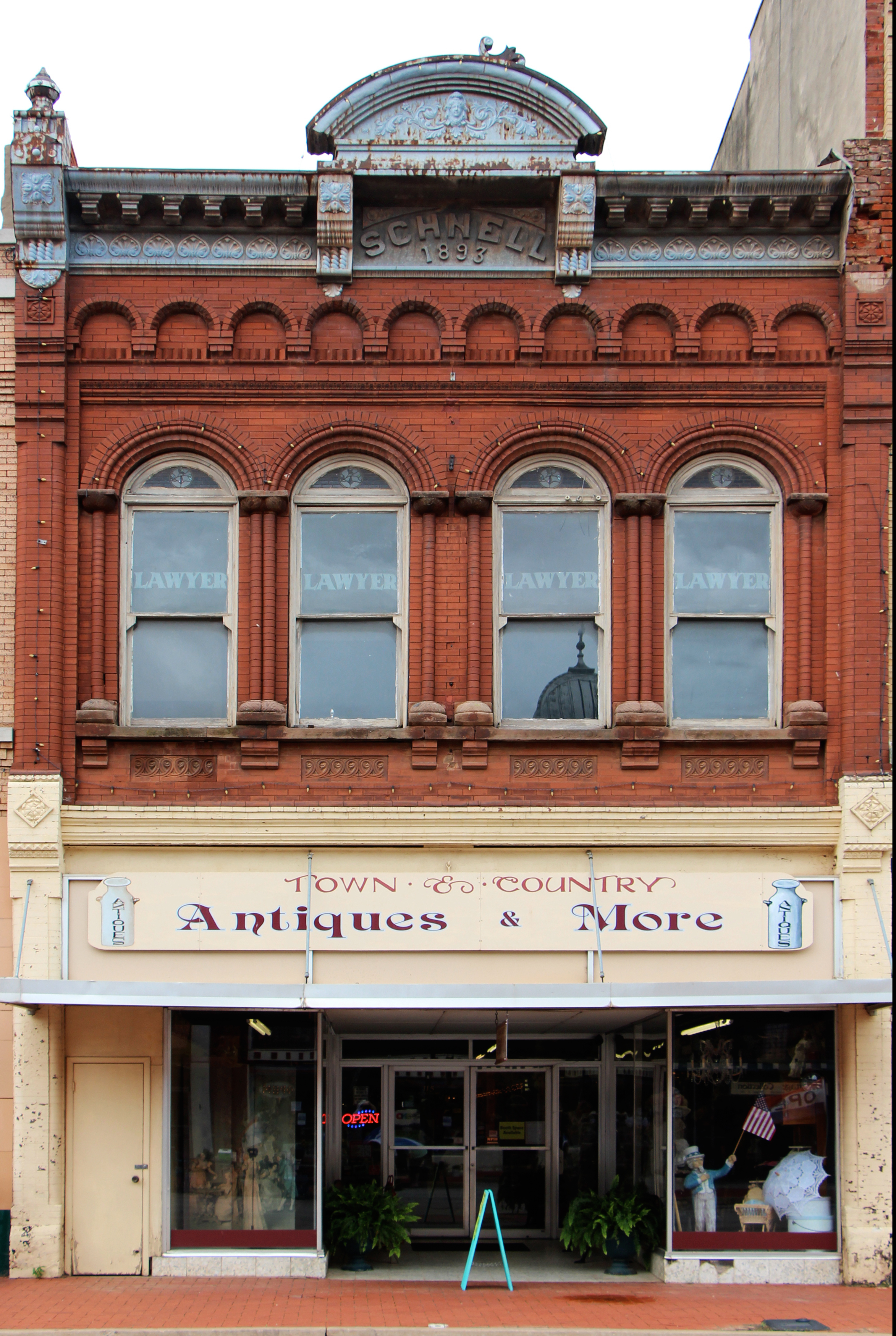 Schnell Building, Guthrie, Oklahoma